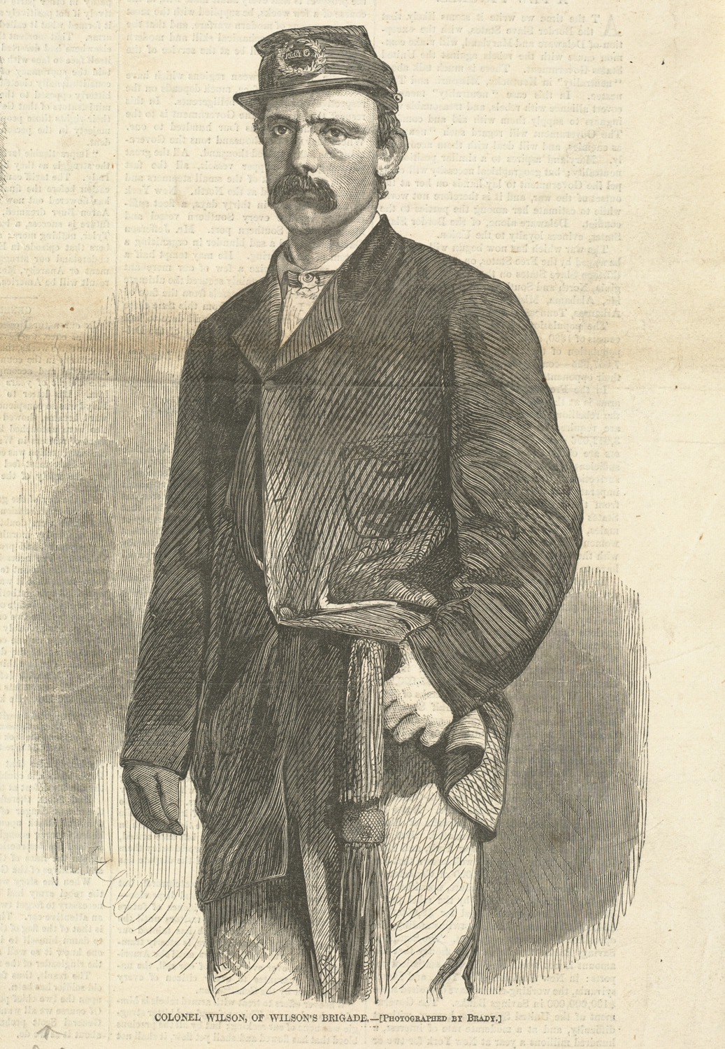 File name: 10_09_000173 Title: Colonel William Wilson, of Wilson's Fighting Brigade, from Harper's Weekly, May 11, 1861 Creator/Contributor: Homer, Winslow, 1836-1910 (artist) Date issued: 1861-05-11 Physical description: 1 print : wood engraving Genre: Wood engravings; Periodical illustrations Notes: Published in: Harper's Weekly, Volume V, No. 228, 11 May 1861, p. 289.; Photographed by Brady. Collection: Winslow Homer Collection Location: Boston Public Library, Print Department Rights: No known restrictions Flickr data on 2011-08-11: Camera: Sinar AG Sinarback 54 FW, Sinar m Tags: Winslow Homer User: Boston Public Library BPL